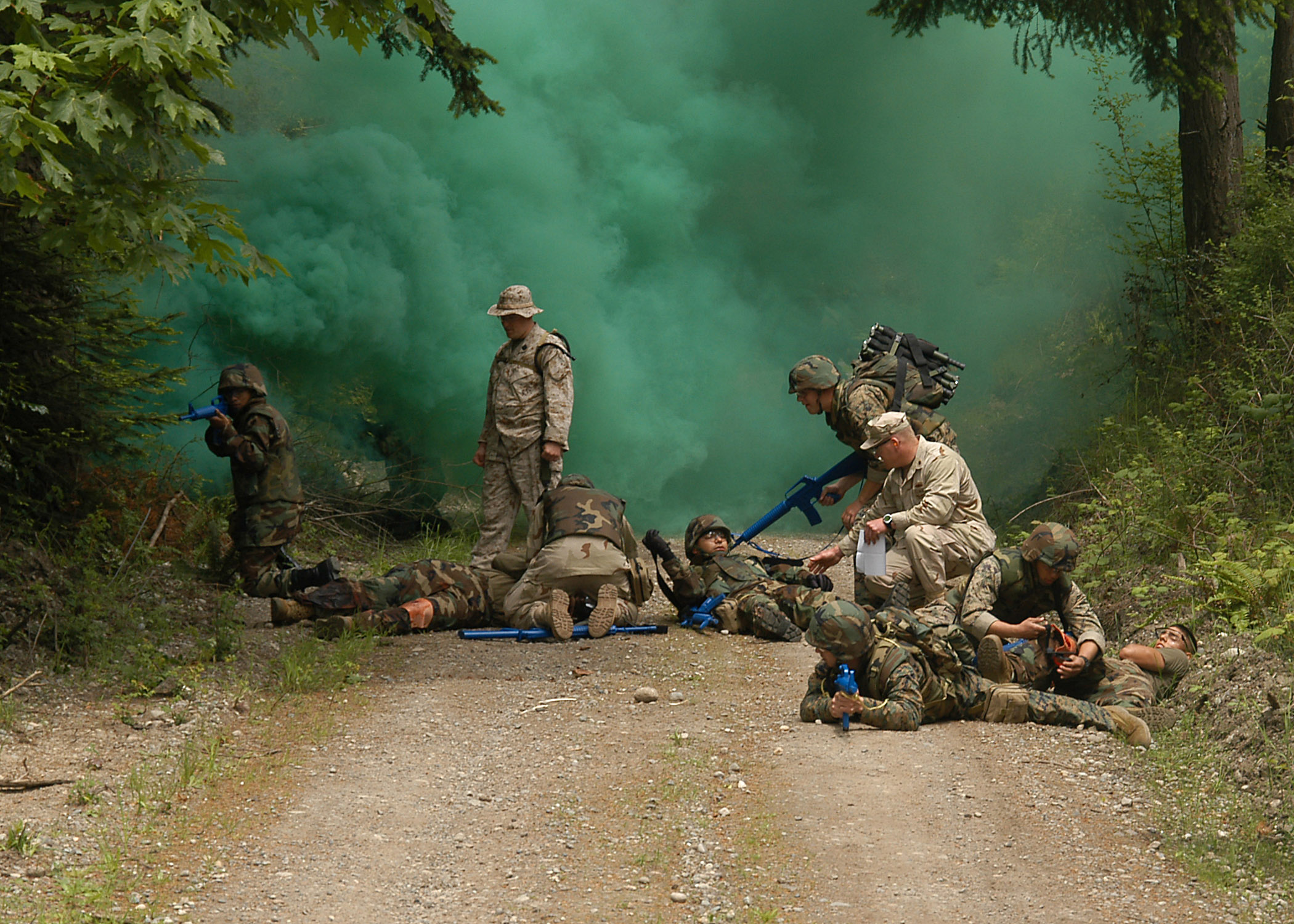 OAK HARBOR, Wash. (May 24, 2007) - Hospital Corpsman from Naval Hospital Oak Harbor participate in Tactical Combat Casualty Care (TC3) training, a 16-hour program of instruction developed for medical personnel in direct and indirect support of military combat operations. Sailors and Marines from Navy Region Northwest participated in the course run by Naval Hospital Oak Harbor. U.S. Navy photo by Mass Communication Specialist 1st Class Bruce McVicar (RELEASED)